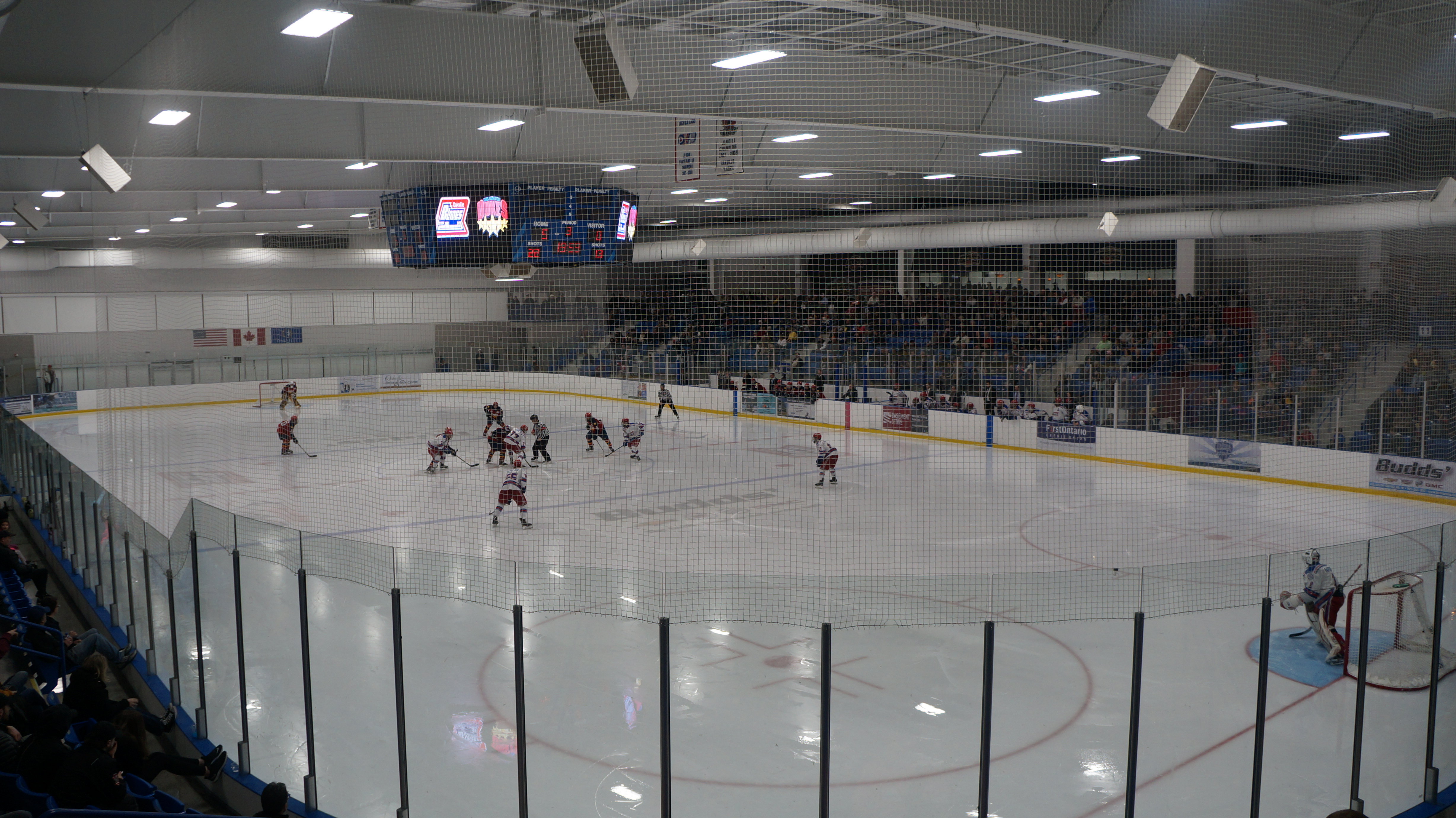 The Oakville Blades hosting the Wellington Dukes at the Sixteen Mile Sports Complex in Oakville, Ontario on April 12, 2019.